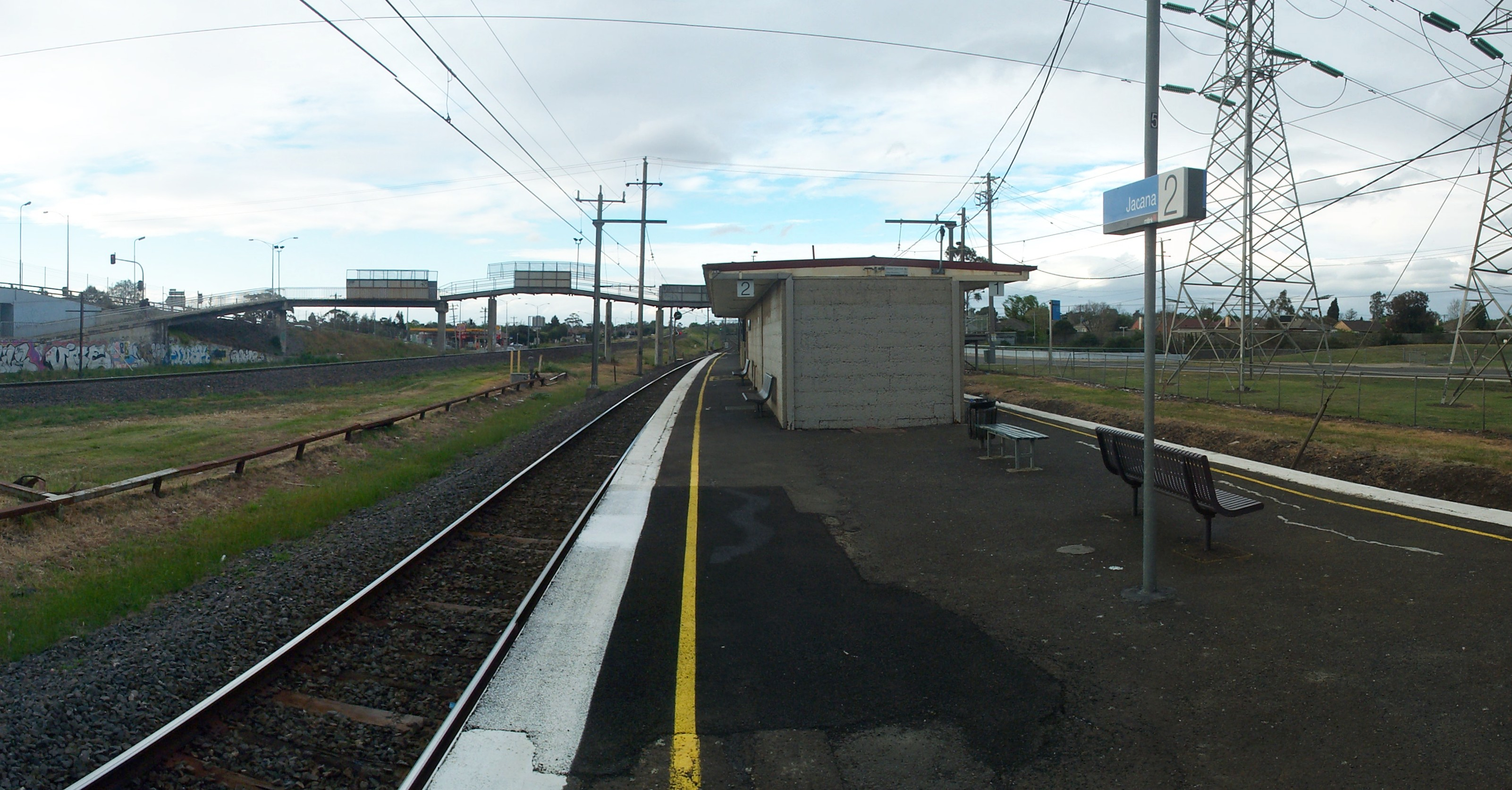 Photograph of Jacana railway station, Melbourne, view from platform